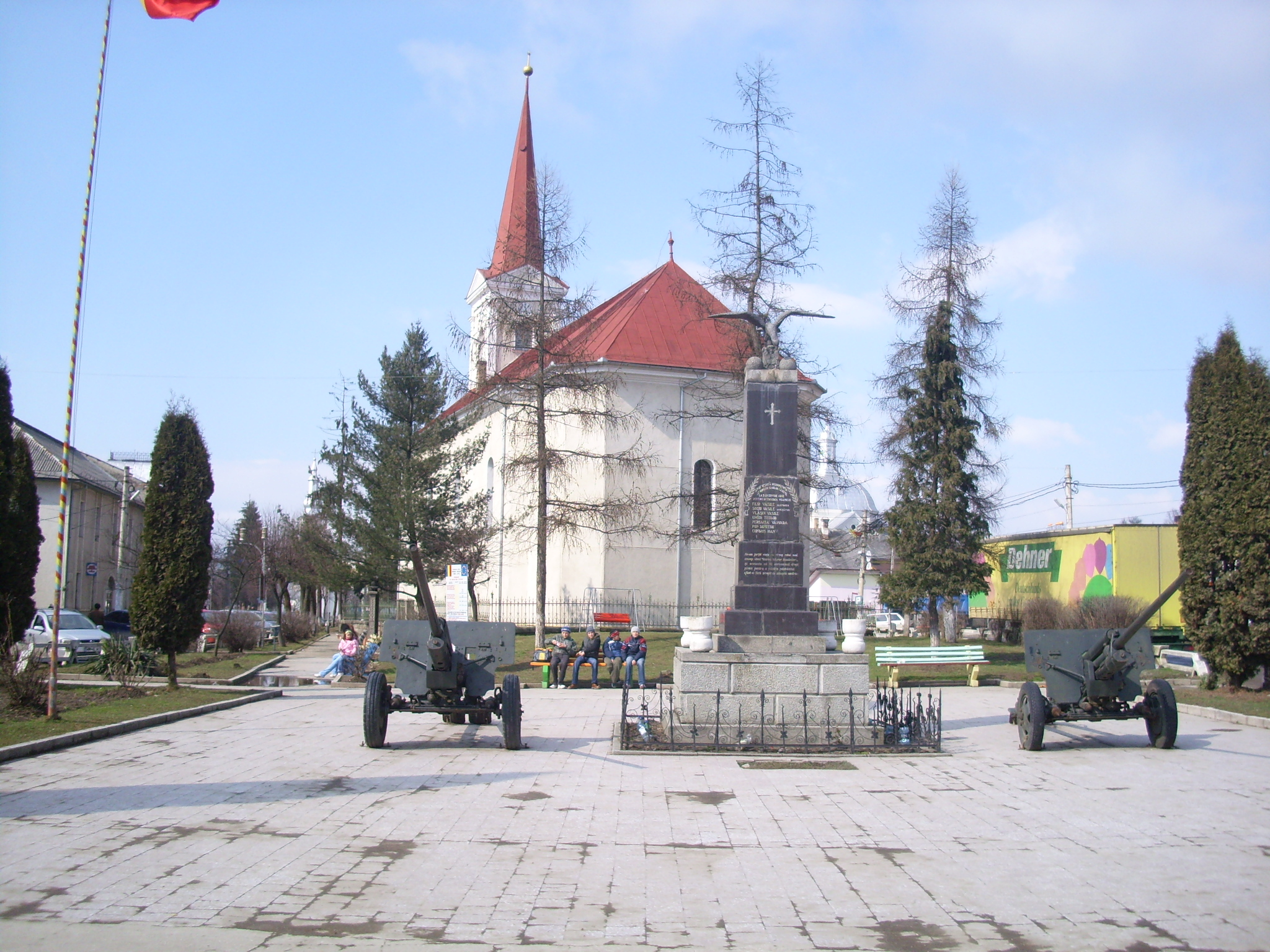 Monument commemorating the 1918 Union of Transylvania with Romania, Târgu Lăpuş, Romania (1935) (Monumentul Eroilor căzuţi pentru Unirea tuturor românilor - "Monument to the Heroes fallen for the Union of all Romanians")